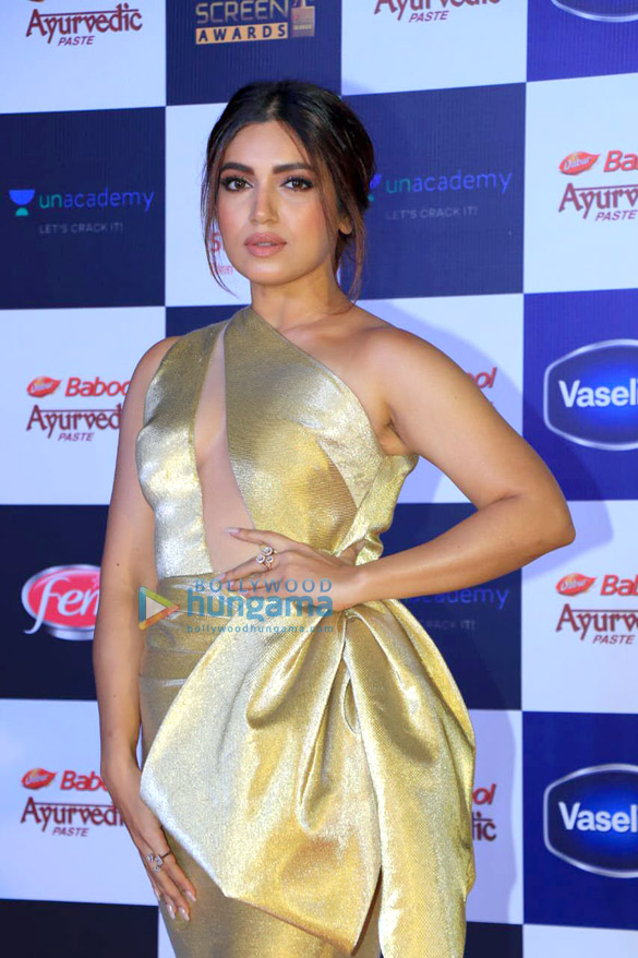 Bhumi Pednekar in Screen Awards 2019